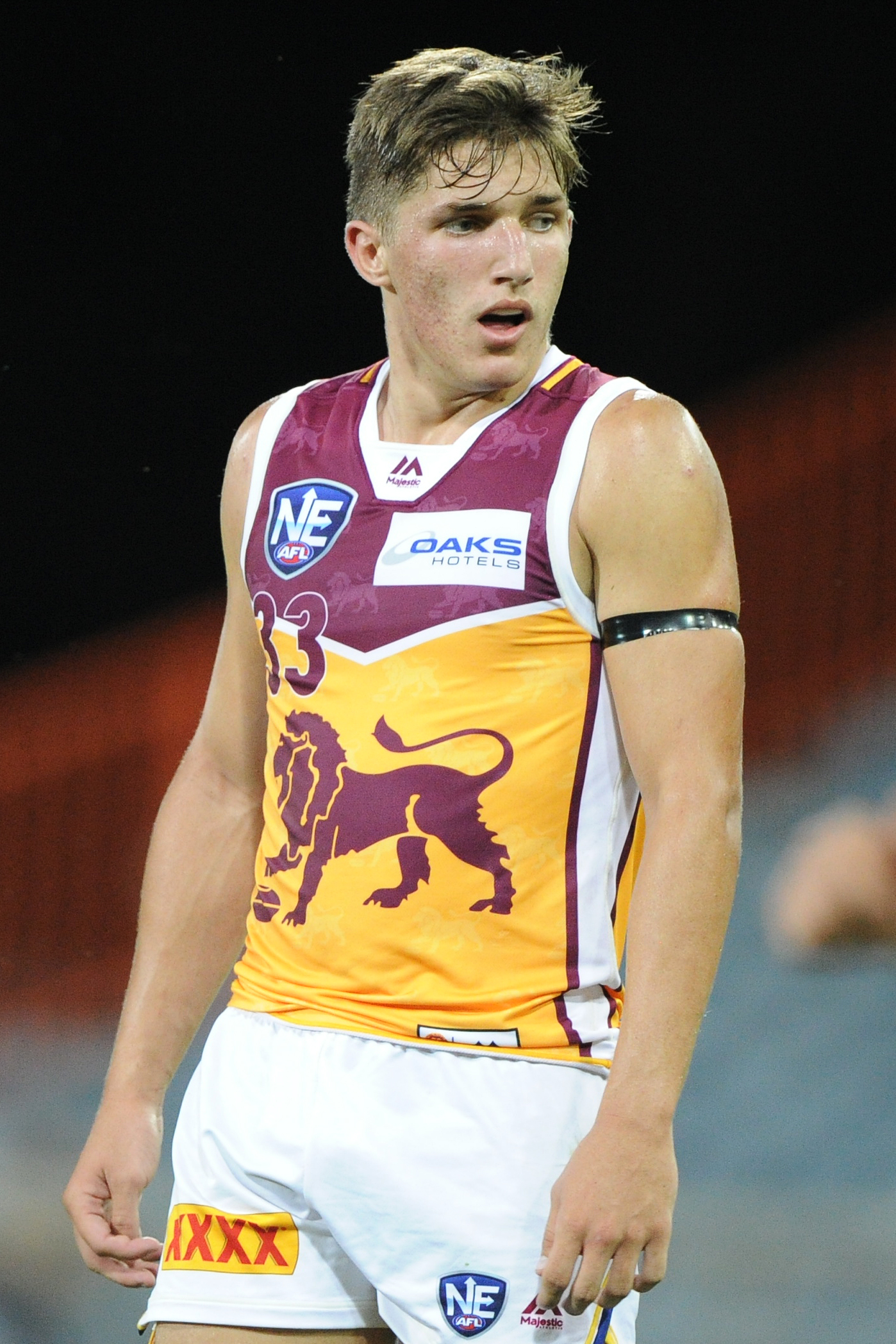 Zac Bailey of the Brisbane Lions during the NEAFL round one match between NT Thunder and Brisbane Lions at TIO Stadium on 7 April 2018 in Darwin, Australia.